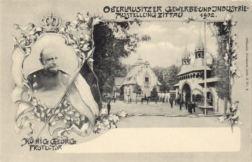 Zittau industrial exhibition 1902